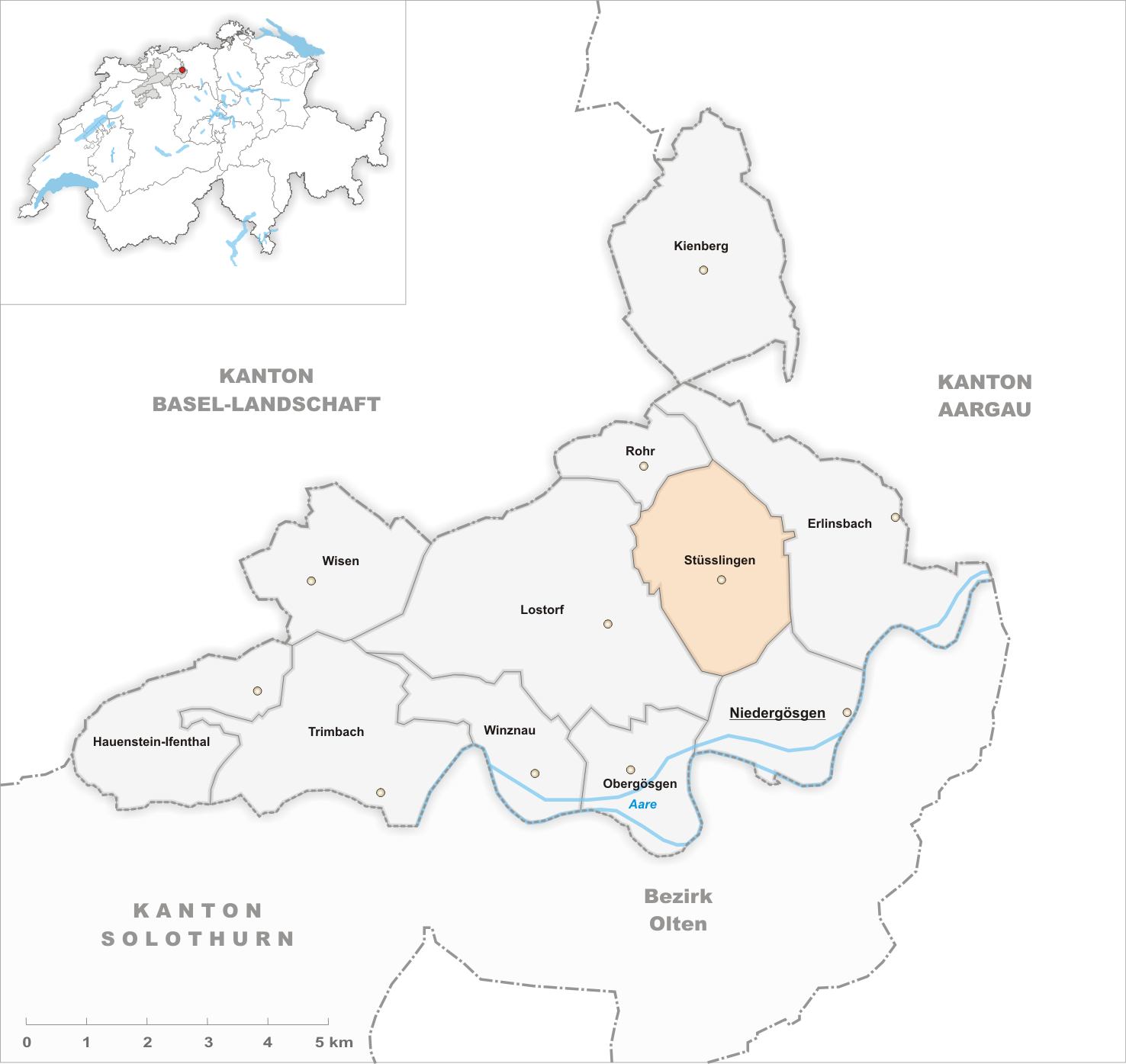 Municipality Stüsslingen